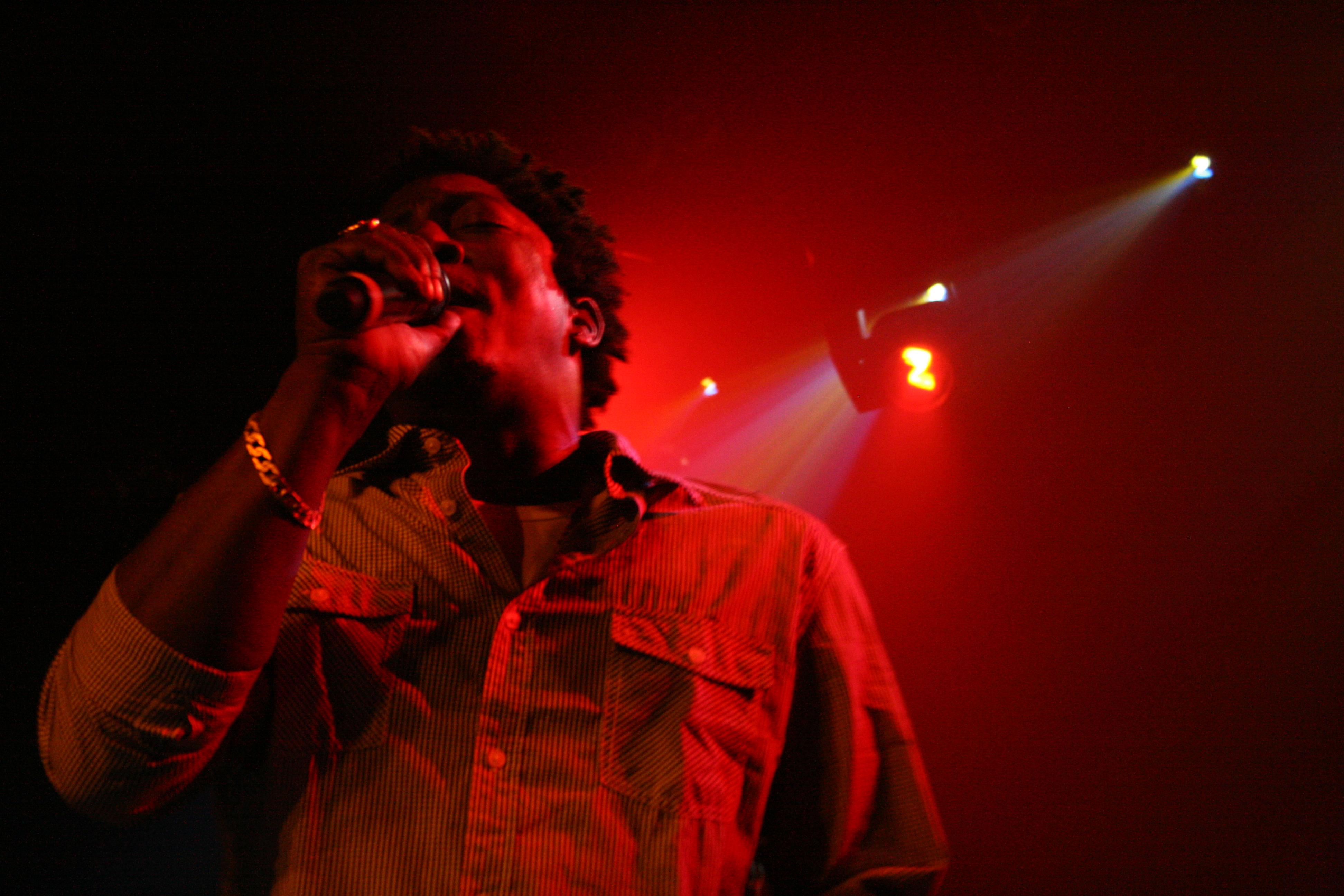 Chaka Demus & Pliers concert in Göta Källare, Stockholm 4th of august 2009, Stockholm, Sweden.